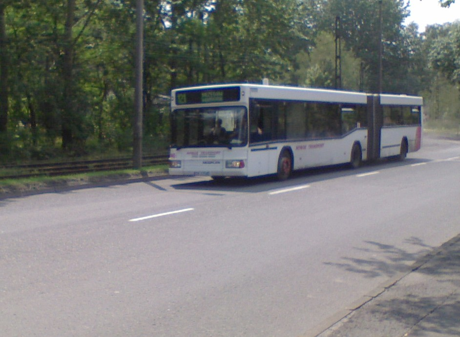 Neoplan N4021NF bus (#043 or #044) in Poland. Nowak Transport company, Nowe Chechło, Silesian Voivodeship. Year built 1993.